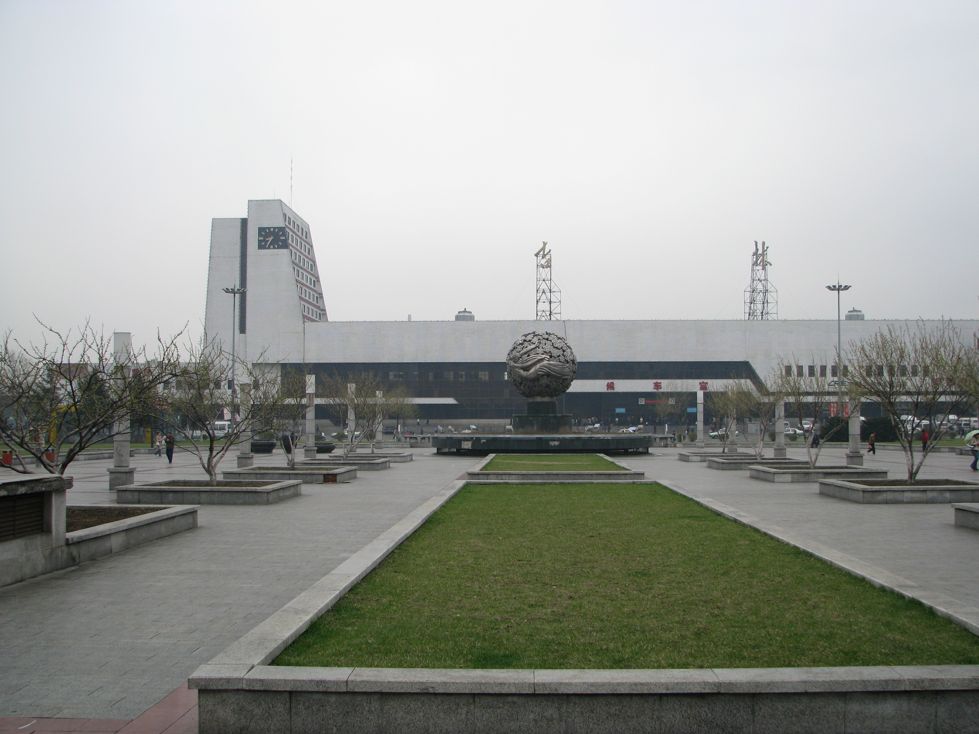 Jilin Railway Station